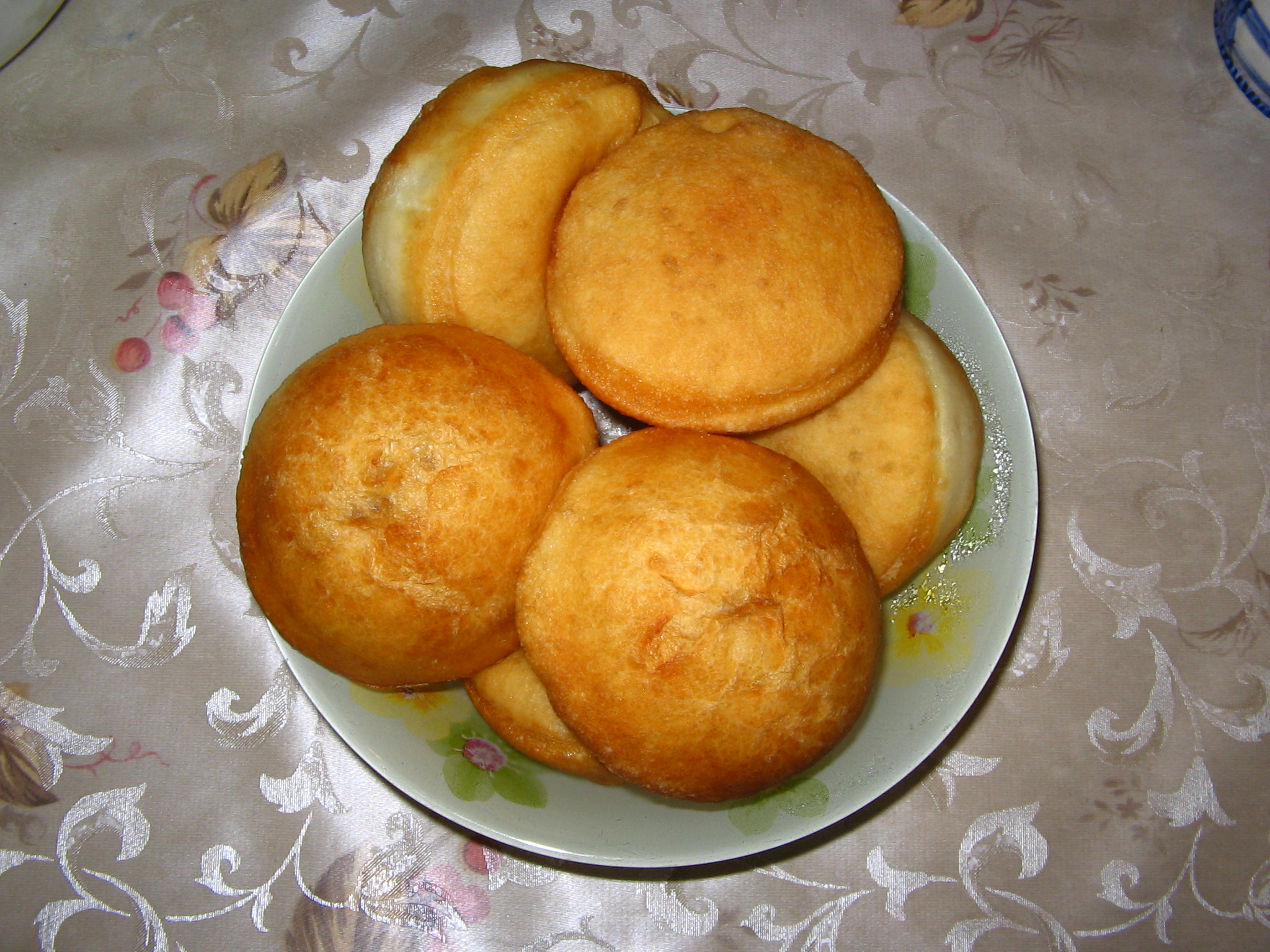 Boortsogs made in Kazakhstan